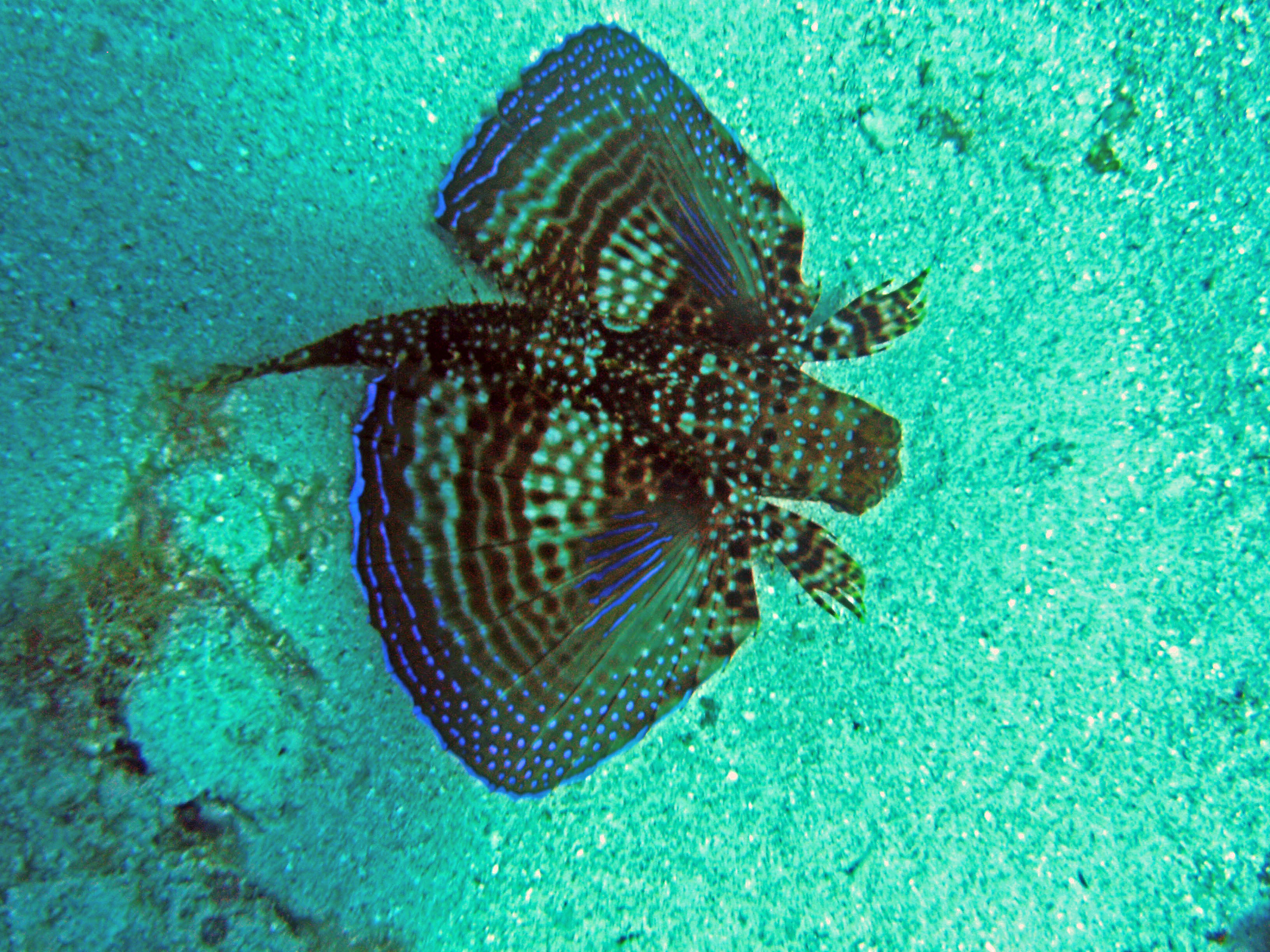 Photo of a flying gurnard fish taken off the coast of Negril, Jamaica.